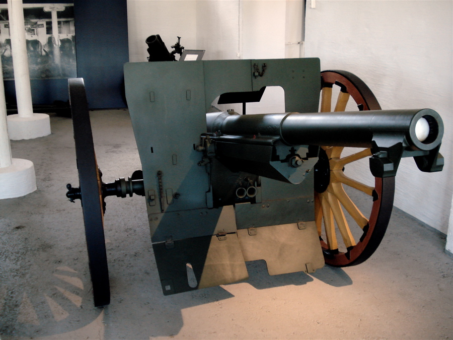 French 75 mm model 1897 gun, displayed in Hämeenlinna Artillery Museum.